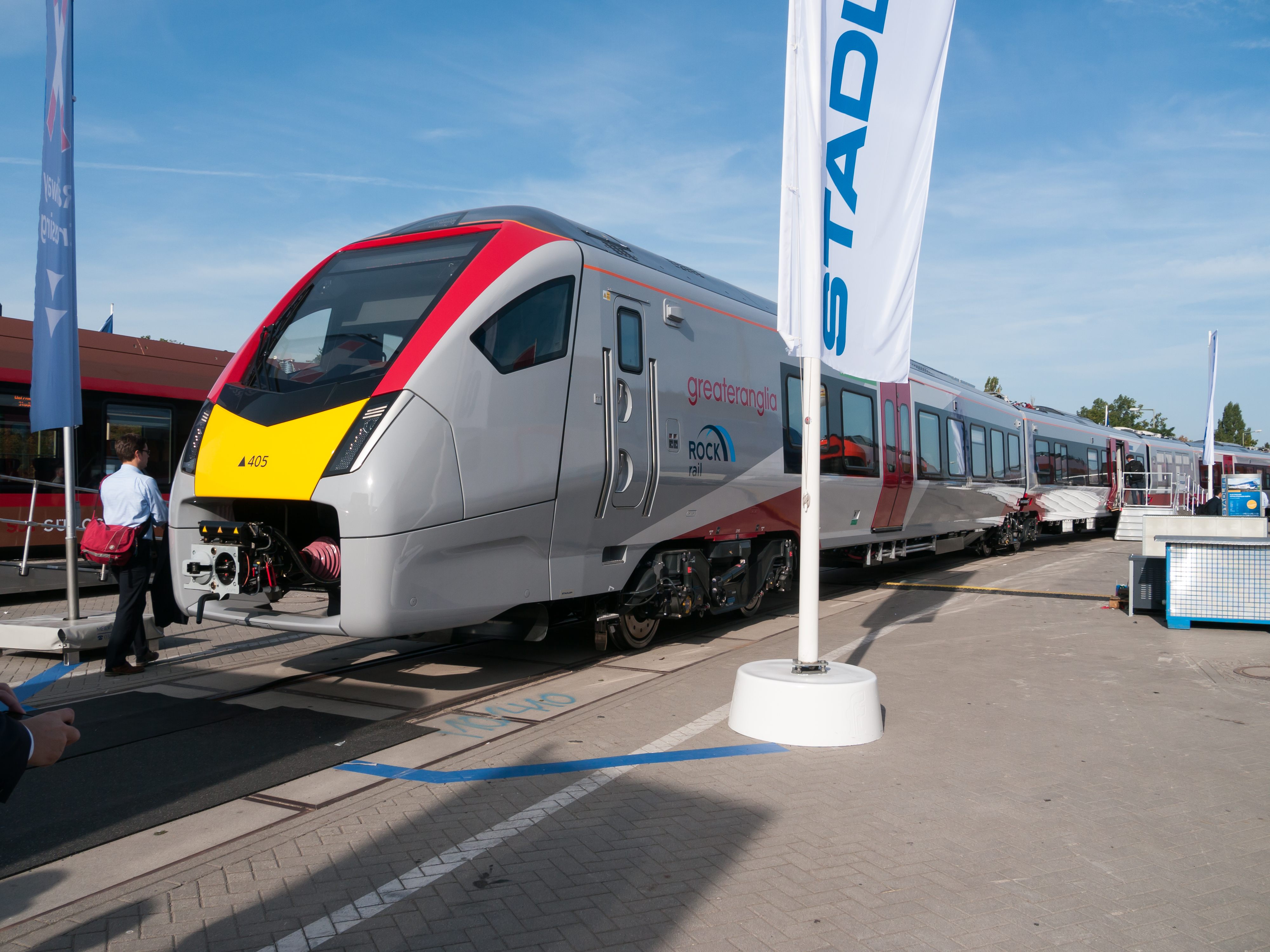 British Rail Class 755 (FLIRT produced by Stadler) for Greater Anglia at Innotrans 2018 fair in Berlin, Germany